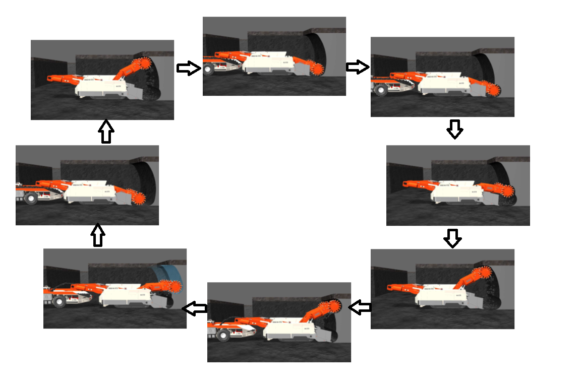 Improved bi-directional Cutting Cycle